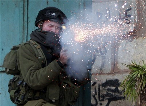 Grenade launcher in action